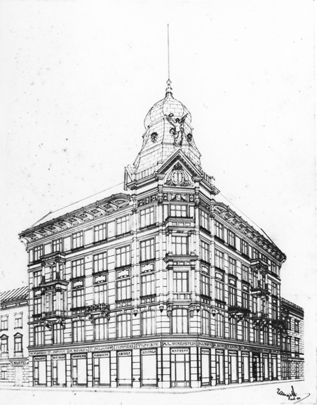 Project of Moses Ohrenstein's house, built in the years 1911-1913. Kraków, Diela 42